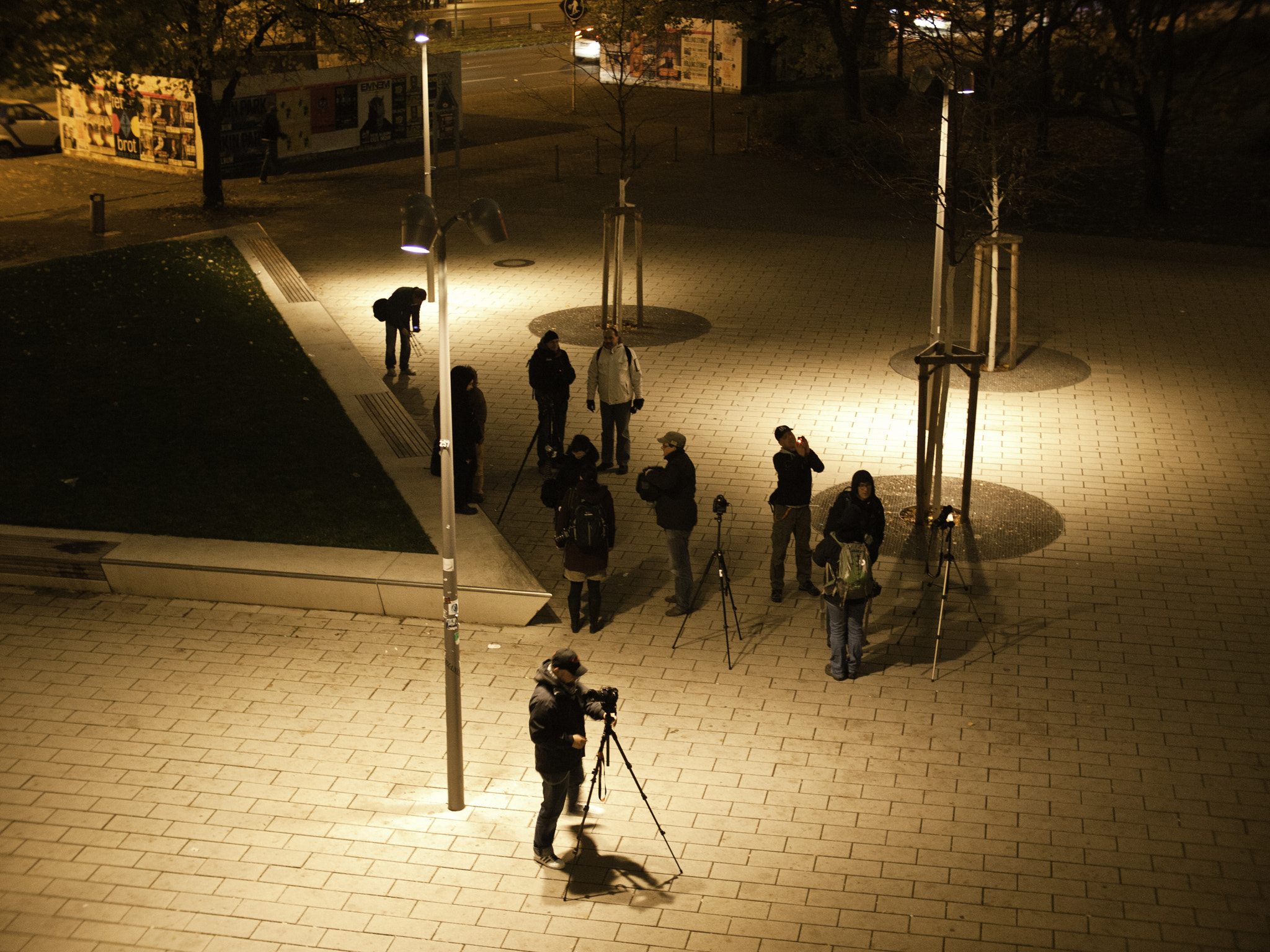 500px provided description: Photowalk Berlin November 2013 [#Nature ,#Street Photography ,#People ,#Photography ,#Street ,#Tree ,#Light ,#Night ,#Menschen ,#Baum ,#Lens ,#Man ,#Plant ,#Natur ,#Nuit ,#Lighting ,#Licht ,#Nacht ,#Photographer ,#Graffiti ,#Illumination ,#Poster ,#Daytime ,#Voigtl?nder ,#Fotografie ,#Group Of People ,#Mensch ,#Menschengruppe ,#Nokton ,#Nokton 25mm 1:0.95 ,#Objektiv ,#Streetfotografie ,#Technik ,#Technique ,#Available Light ,#Beleuchtung ,#Advertising ,#Streetart ,#Street Lamp ,#Plastic ,#Mann ,#Pflanze ,#Fotograf ,#Photographe ,#Graffito ,#Placard ,#Plakat ,#Tripod ,#Stra?enlaterne ,#Advertisement ,#Tageszeit ,#Werbung ,#Stra?enfotografie ,#Stativ ,#Fotografa ,#Kunststoff ,#Plastic Bag ,#Plastik ,#Synthetic Substance ,#At Night ,#Thema ,#????????? ,#Ser. ??8141040 ,#Plastikt?te ,#El Fot?grafo ,#In der Nacht]